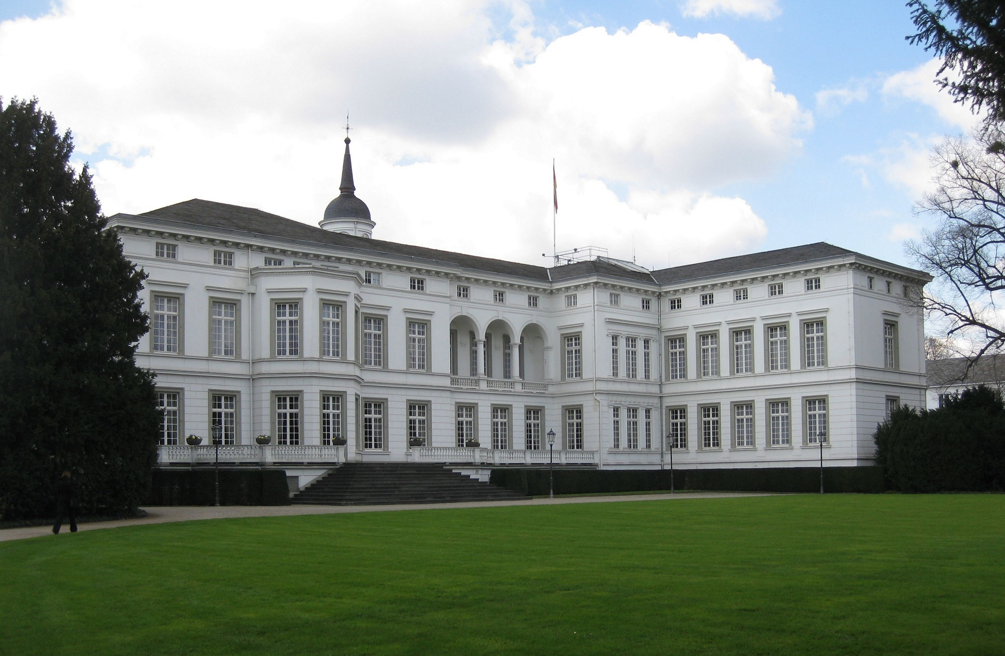 Germany, Bonn: Palais Schaumburg, backside view.